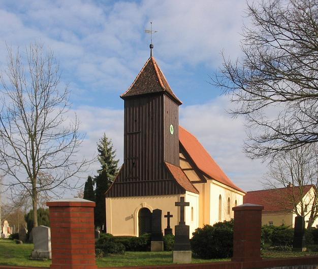 Church in Löwenbruch, built in 1716. The village Löwenbruch is a part of the town Ludwigsfelde in the district Teltow-Fläming, state Brandenburg, Germany.